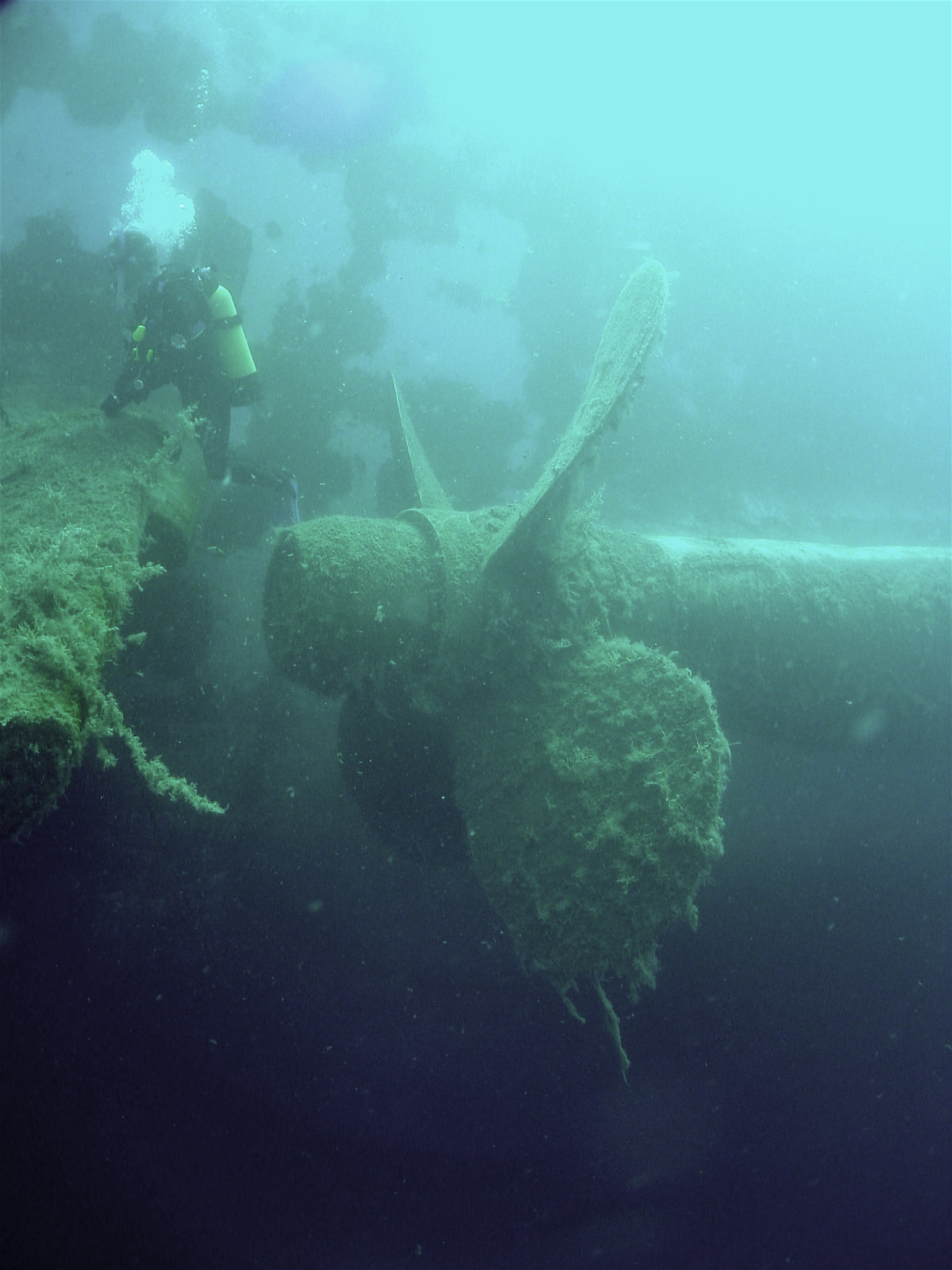 Wreck of the Zenobia in Larnaca Cyprus